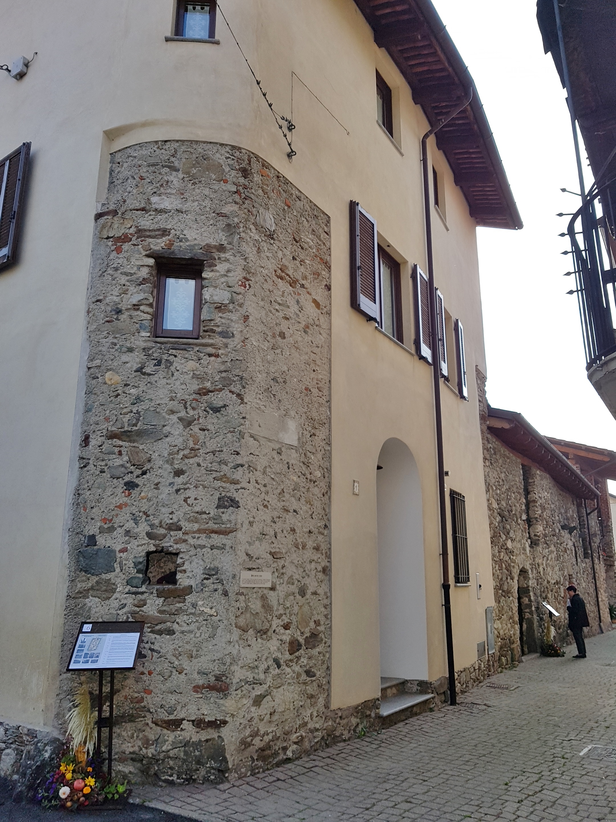 Ricetto: South Gate Il Rivelino, Borgofranco d'Ivrea, Northern Italy